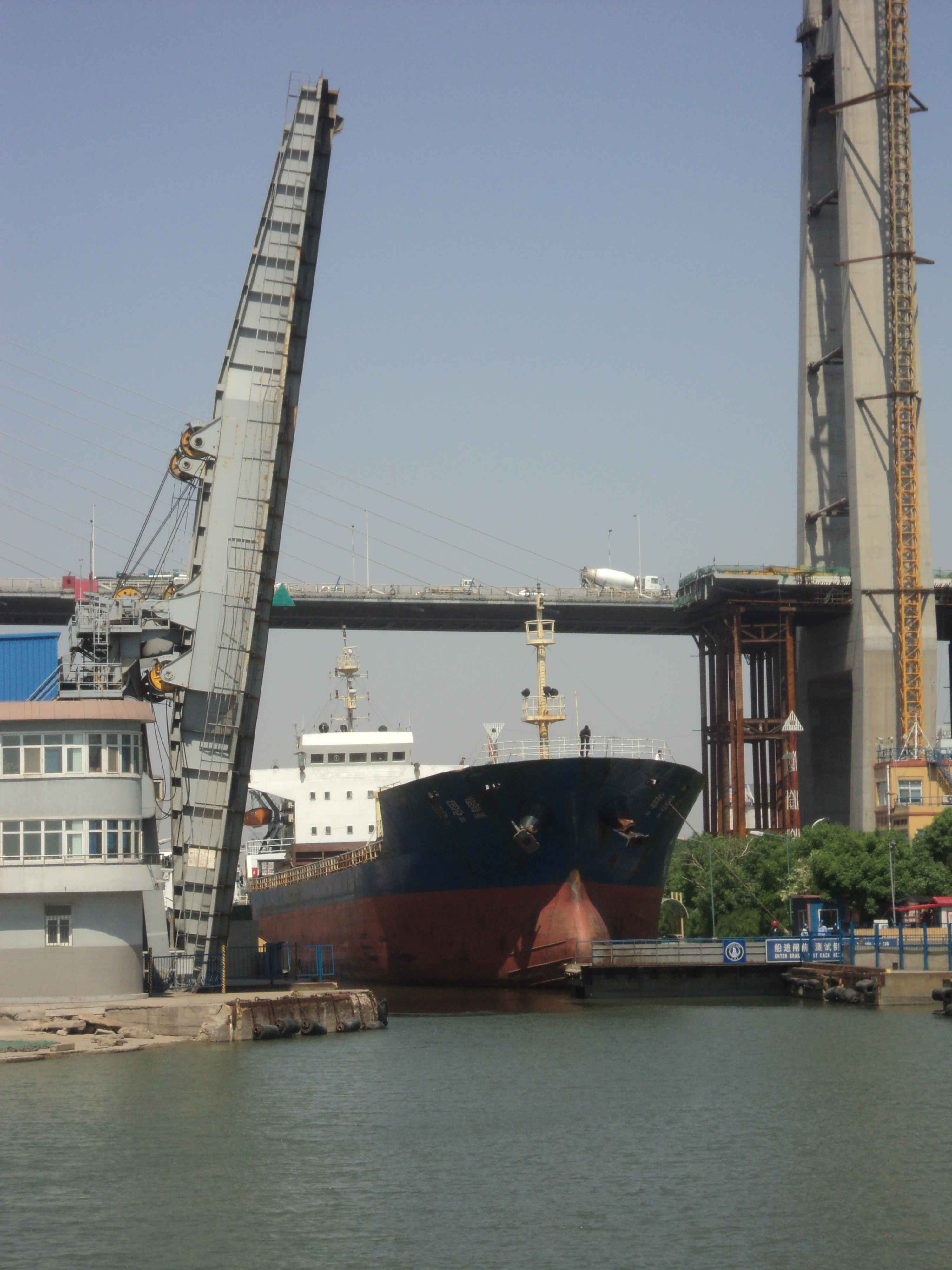 Tanker leaving the Xingang Shiplock into the main harbor. The gates are also drawbridges that are the main passenger route into the Nanjiang Island